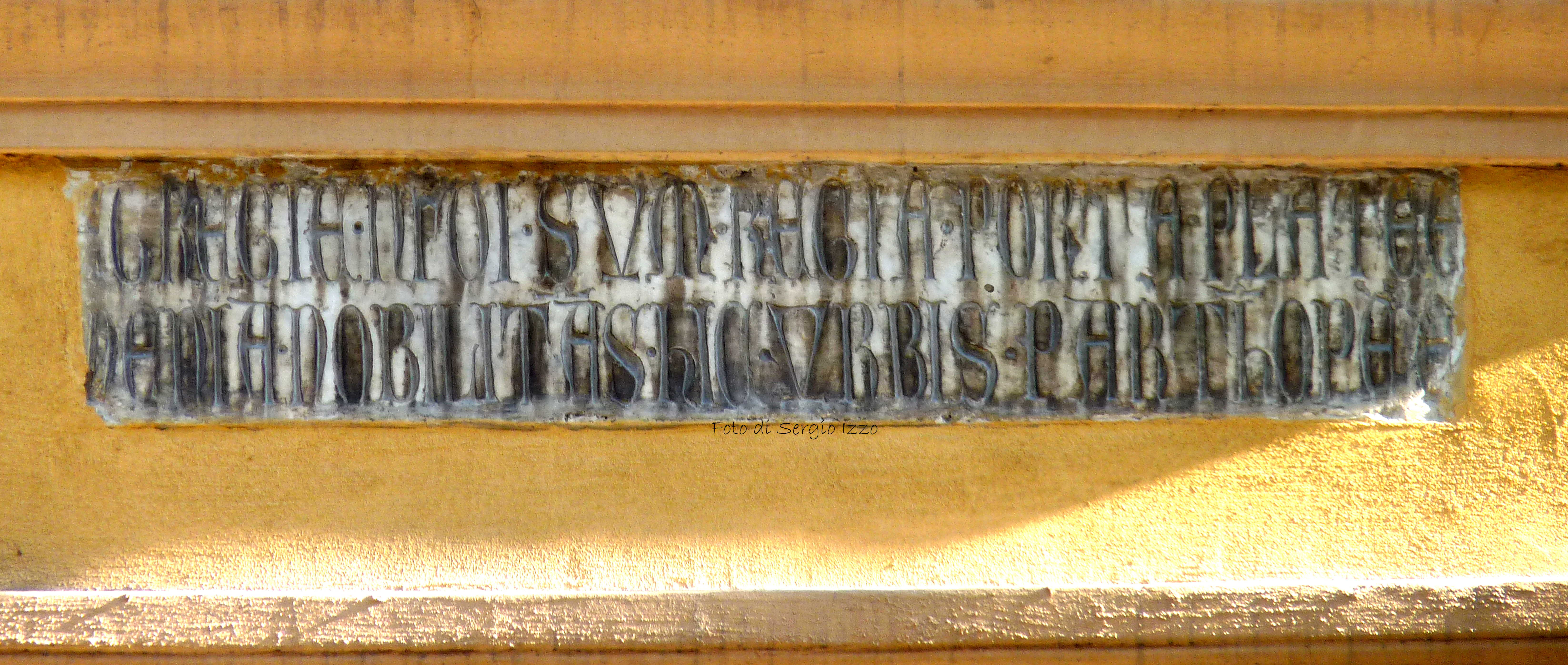 Port Royal , which is believed to arise between Via Cisterna Oil and the palace of the Congregations (now the grammar school Antonio Genovesi ) , was abolished by Don Pedro of Toledo and rebuilt in 1538 to ' entrance of Via Toledo , two years after its construction, between the buildings Petagna and De Rosa . It bore the inscription on the arch " EGREGIE NIDI SUM REGIA PORTA PLATEE / MENIA NOBILITANS HIC URBIS PARTHENOPEE " is now visible on a building in Toledo street at the Palazzo De Rosa . The port was officially called New Port Royal , but was also called , rarely , Gate of Toledo or Oil Port , the later name due to the presence in the area, in the past, of tanks for storing olive oil as today still remember the namesake street . Following the construction of the basilica of the Holy Spirit it was then called the Gate of the Holy Spirit.